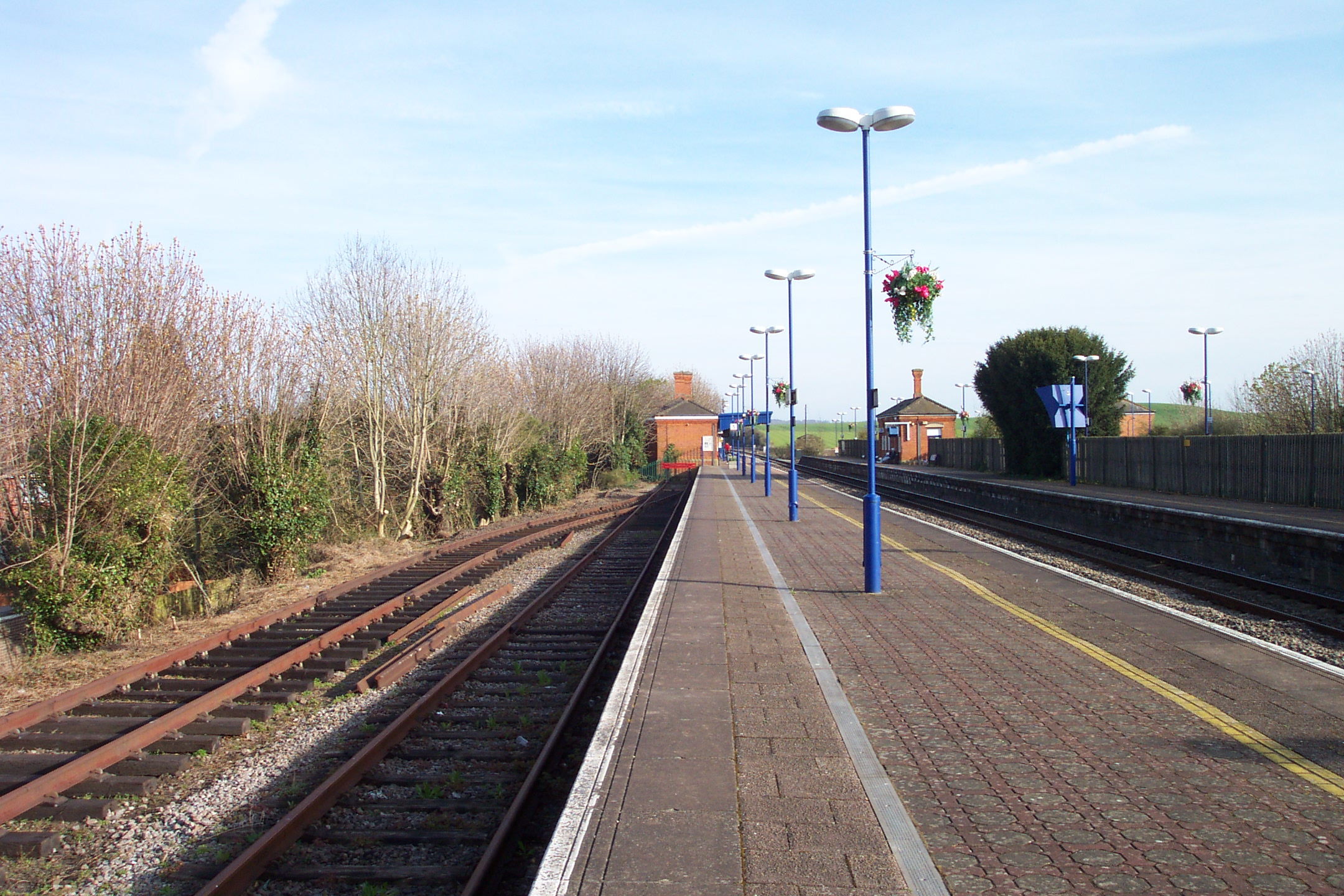 Cholsey railway station; track to the left is the terminus of the Cholsey & Wallingford Railway trains; to right are the relief line platforms; out of sight behind the fence further to the right are the fast line platforms. For more information see the Wikipedia article Cholsey railway station.